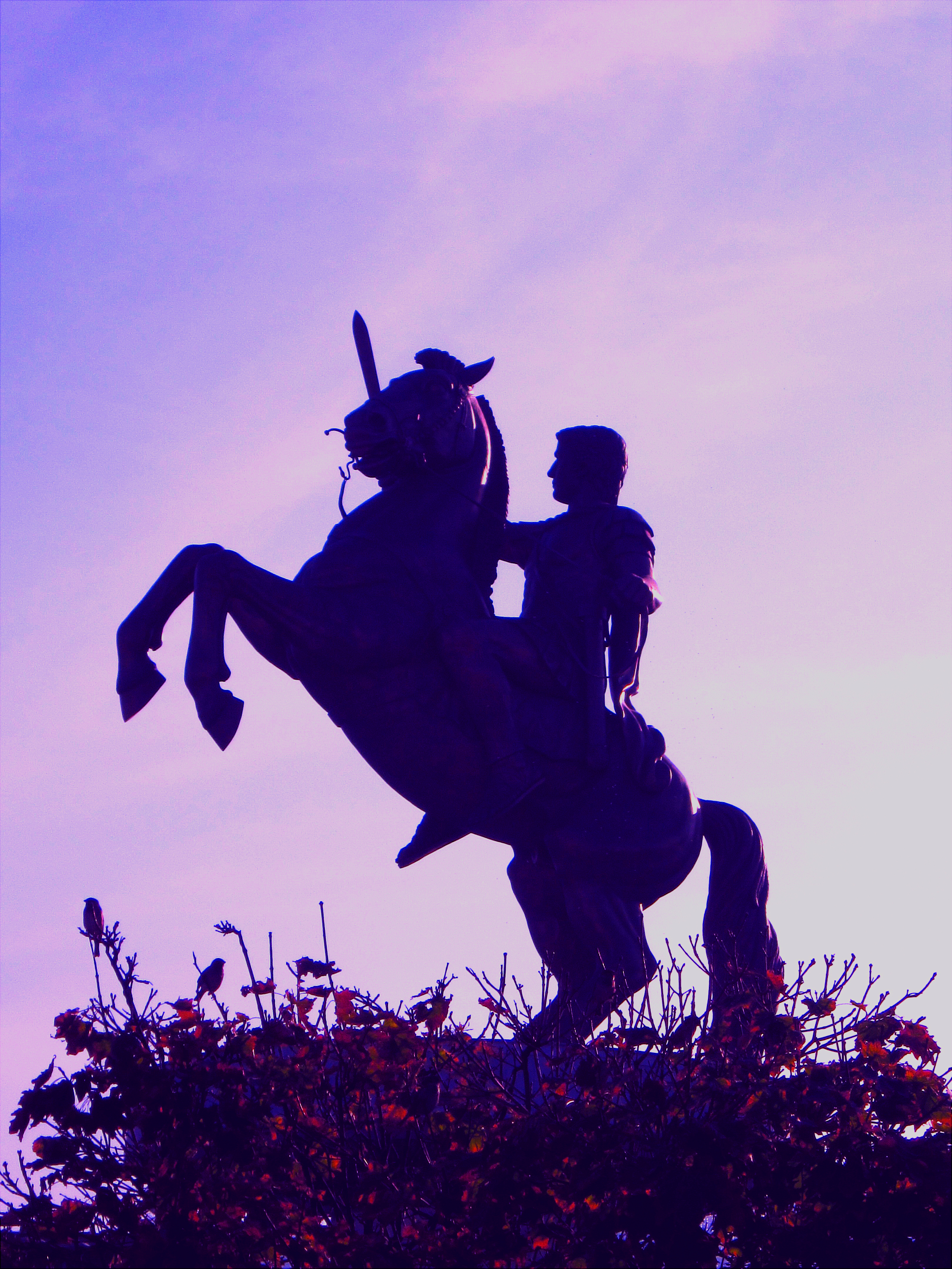 Skopje 2014 is a project financed by the Government of the Republic of Macedonia,consists mainly of the construction of museums and government buildings, as well as the erection of monuments depicting historical figures from the region of Macedonia, around 20 buildings and over 40 monuments are planned to be constructed as part of the project, one of them is Monument of Warrior on a Horse